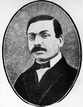 İbrahim Şinasi, Ottoman playwright (5 August 1826 – 13 September 1871)